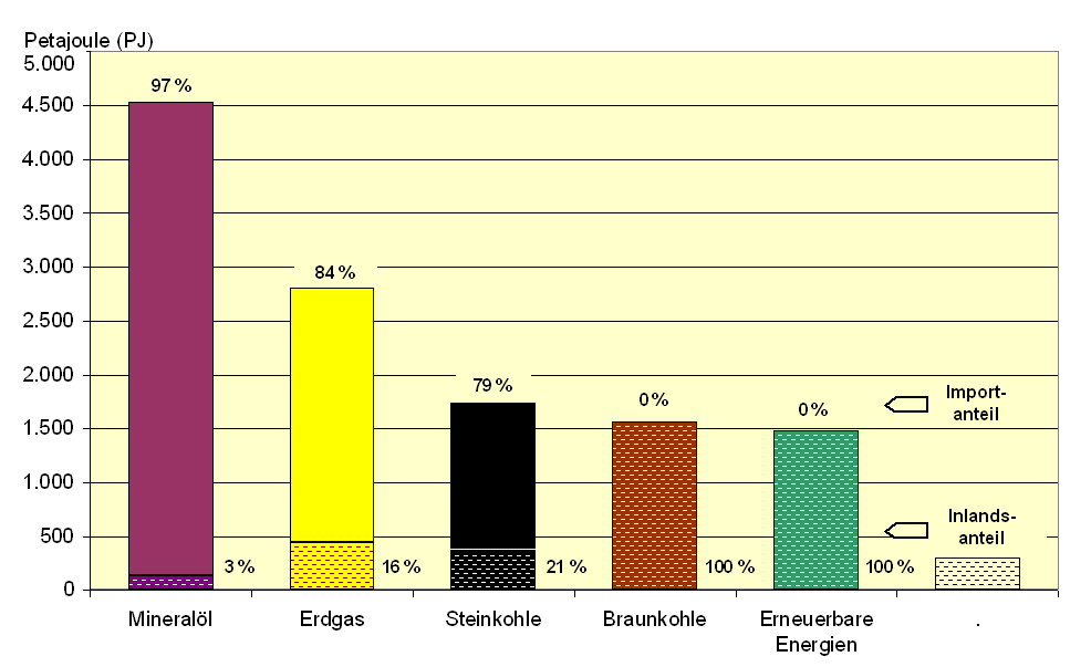 Herkunft der Primärenergie in Deutschland 2011, Anteil der Importe